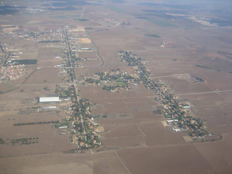 Aerial photo of moshav Ge'a, Israel